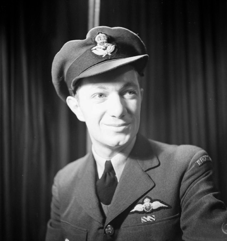 Royal Air Force Fighter Command, 1939-1945. Head and shoulders portrait of Flight-Lieutenant J A Plagis, the top-scoring Rhodesian fighter pilot of the war with 16 confirmed victories. This photograph was taken on his return to the United Kingdom from Malta, where he shot down 11 enemy aircraft while flying with Nos. 249 and 185 Squadrons RAF. He returned to operations in 1943, commanding No. 64 Squadron RAF, to be followed by the command of No. 126 Squadron RAF in June 1944.